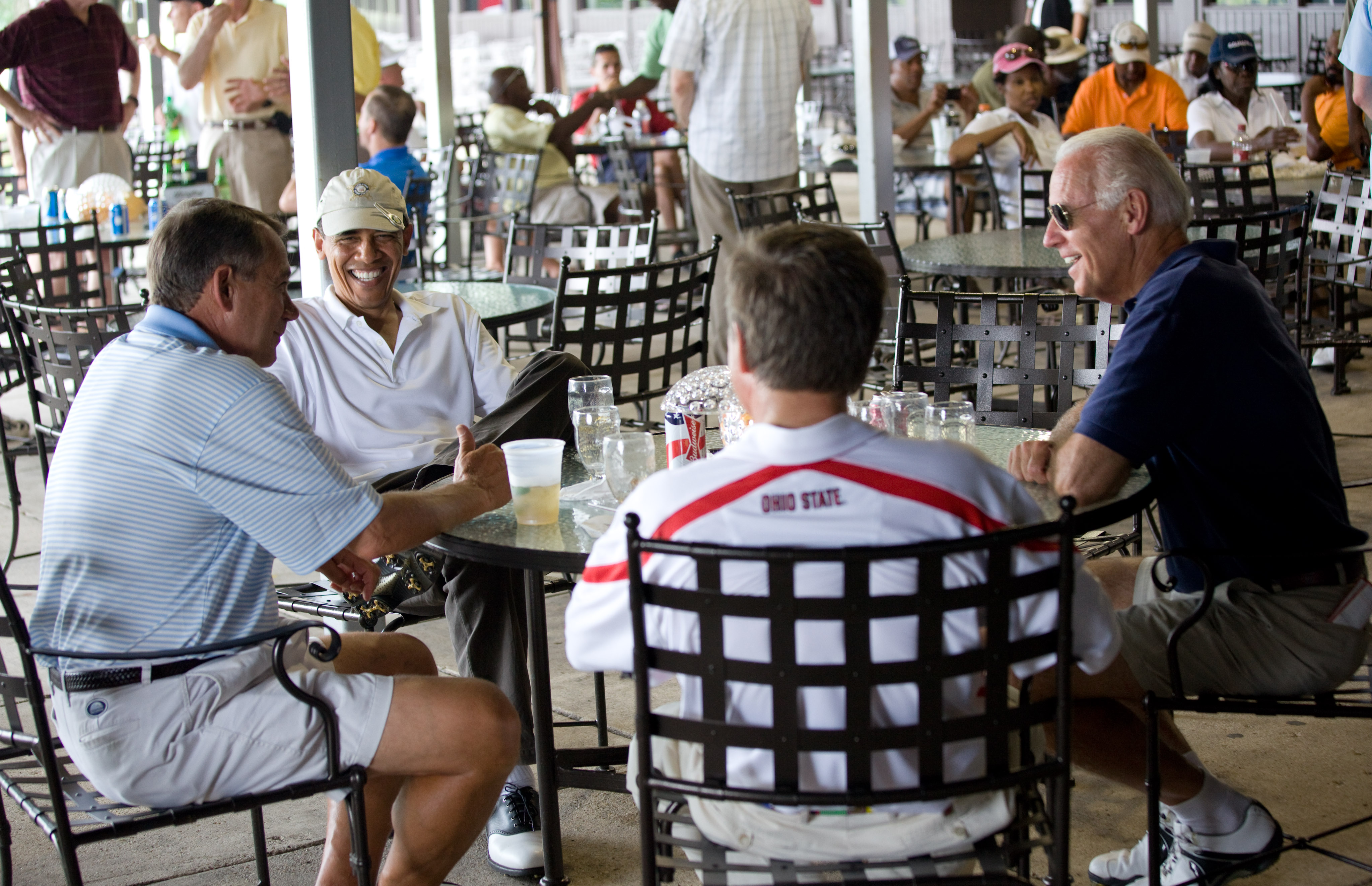 President Barack Obama plays golf with Vice President Joe Biden, Speaker of the House John Boehner, and Ohio Gov. John Kasich, at Joint Base Andrews, June 18, 2011. (Official White House Photo by Pete Souza)